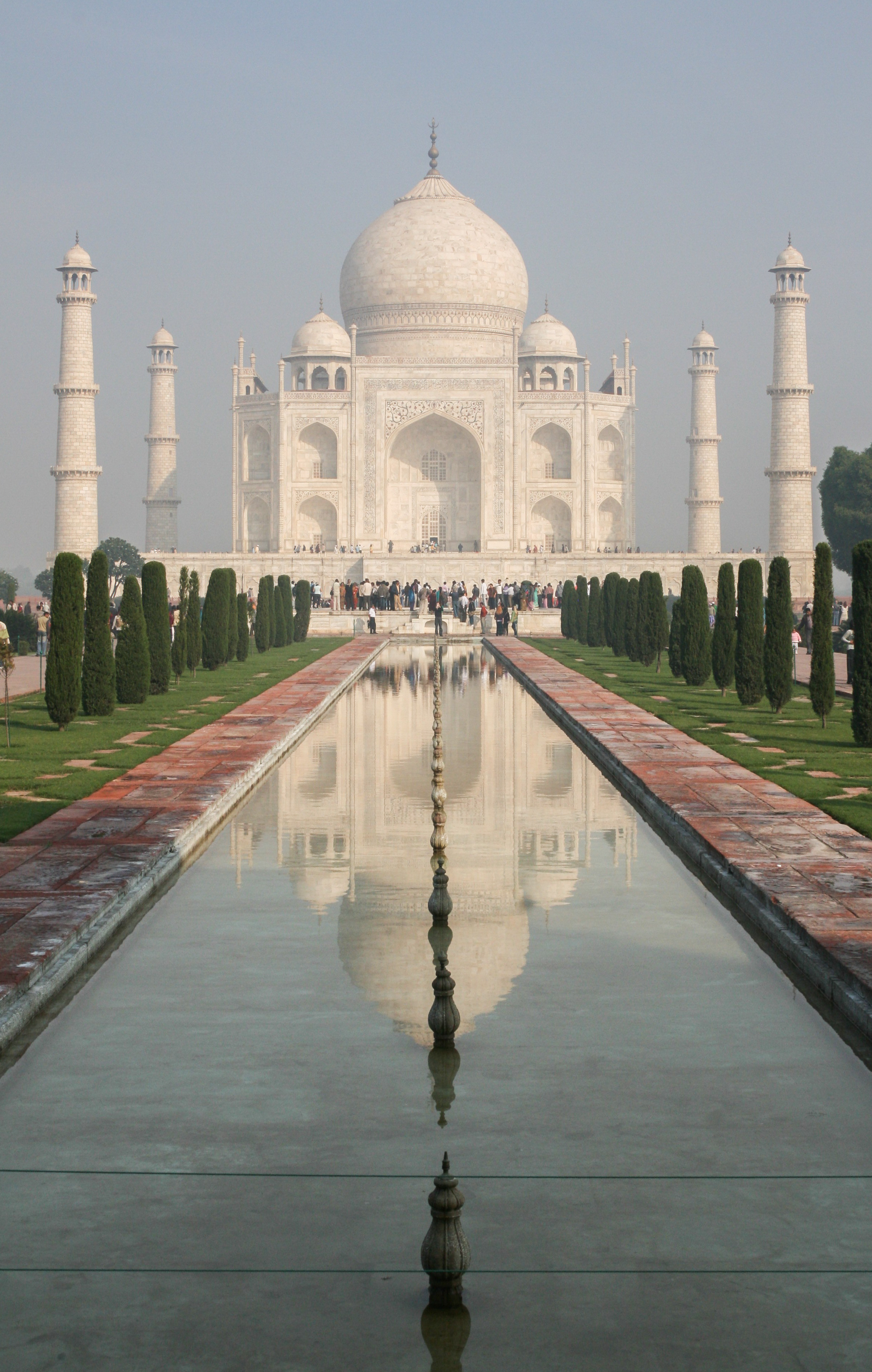 Taj Mahal, Agra, India